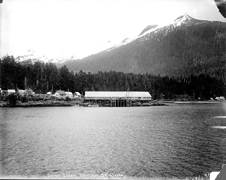 Caption on image: Salmon saltery, Ketchikan, S.E. Alaska . On verso of image: Clark and Martin's plant. Picture taken in 1897 . In Folder 64 Subjects (LCTGM): Canning & preserving--Ketchikan--Alaska Subjects (LCSH): Clark and Martin; Salmon industry--Alaska--Ketchikan; Salmon--Preservation--Ketchikan--Alaska; Salting of food